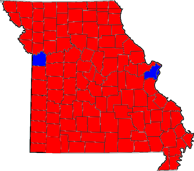 2004 Missouri Senate election results by county.